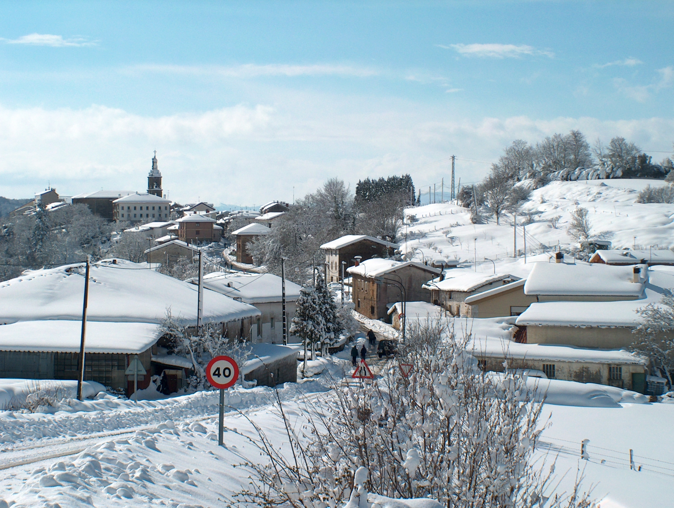 Legutiano with snow from the access to Aramaiona